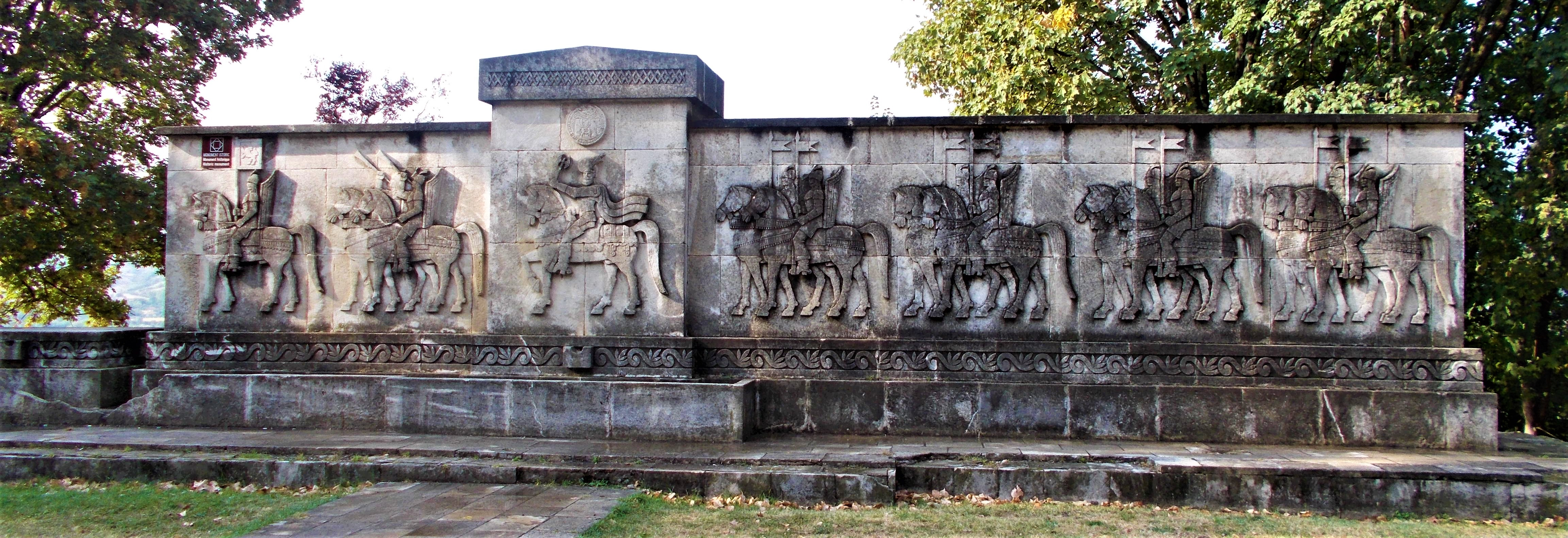 The fountain of Michael the BraveRomână: Fântâna lui Mihai Viteazul